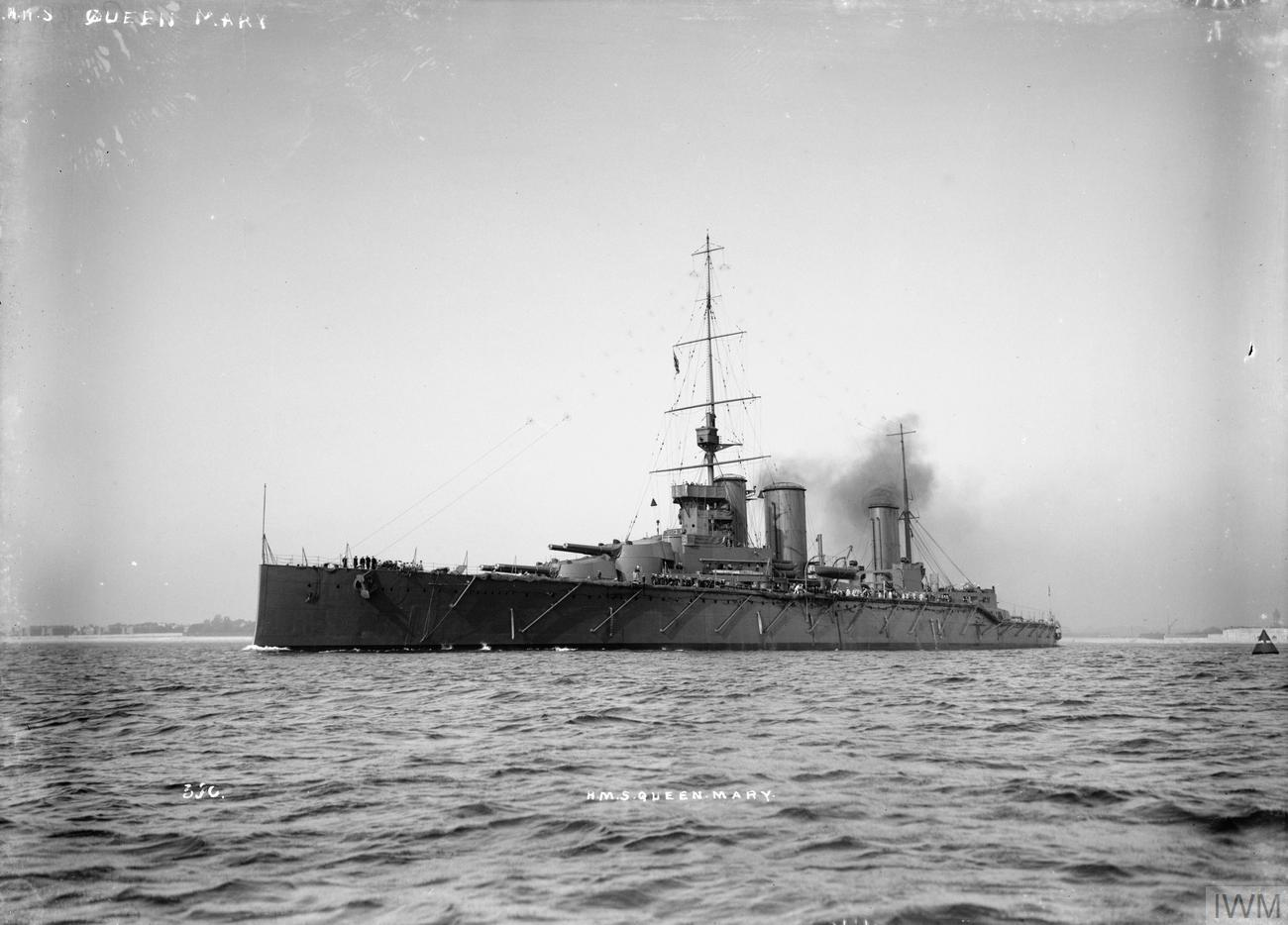 British battlecruiser HMS QUEEN MARY.